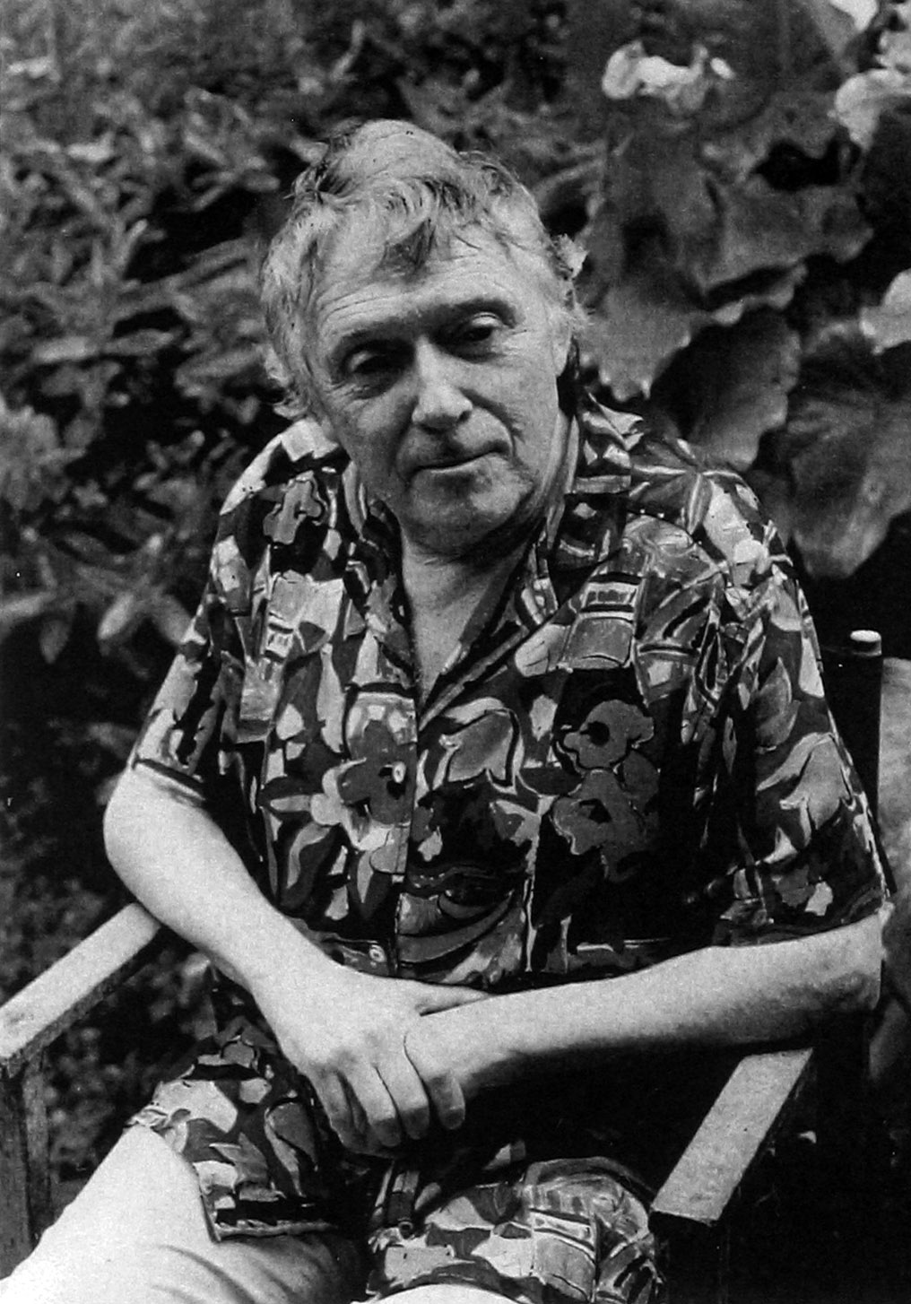 Portrait photograph of Ian Middleton.